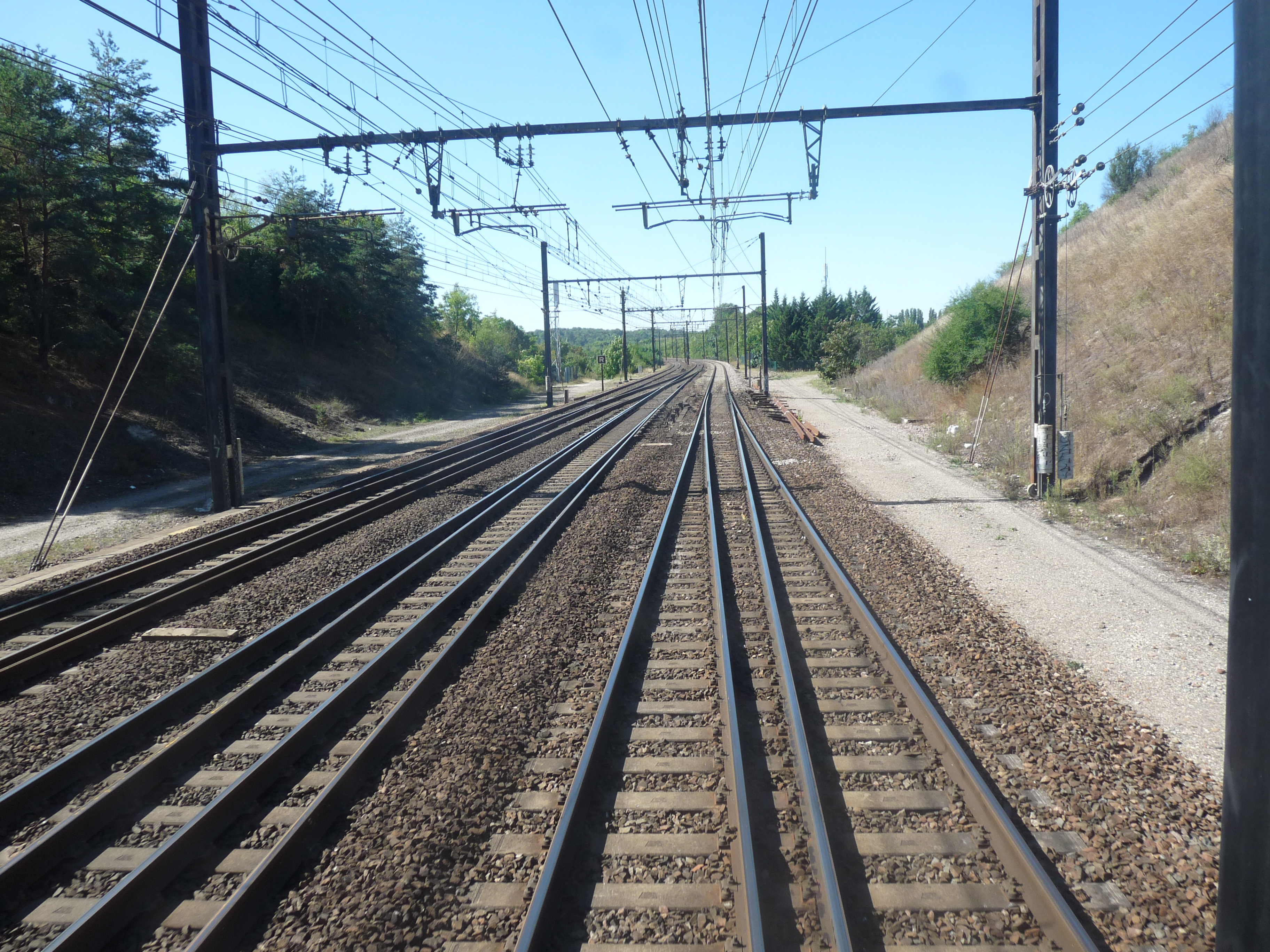 The place near Etampes station, France, where the four track railway changes to a three track railway, on the line from Paris Austerlitz to Bordeaux-Saint-Jean.